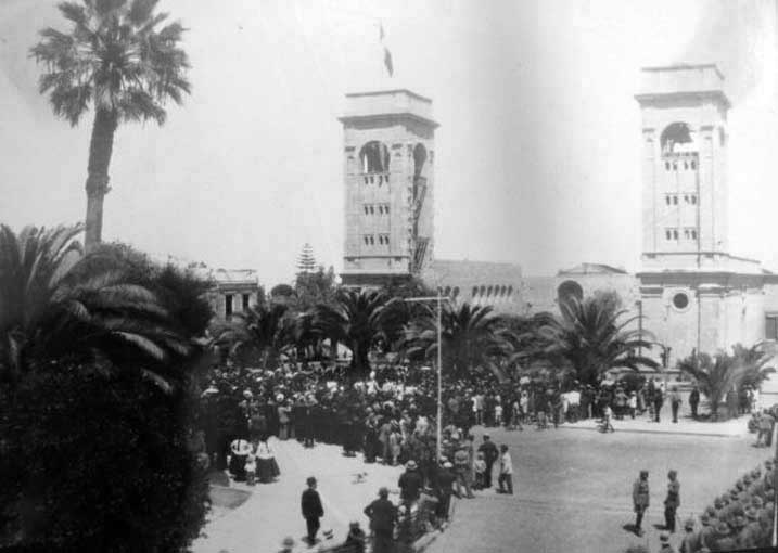 Photograph of the Reincorporation of Tacna to Peru, in August of 1929; you can appreciate the unfinished cathedral and the political and military authorities of the event.